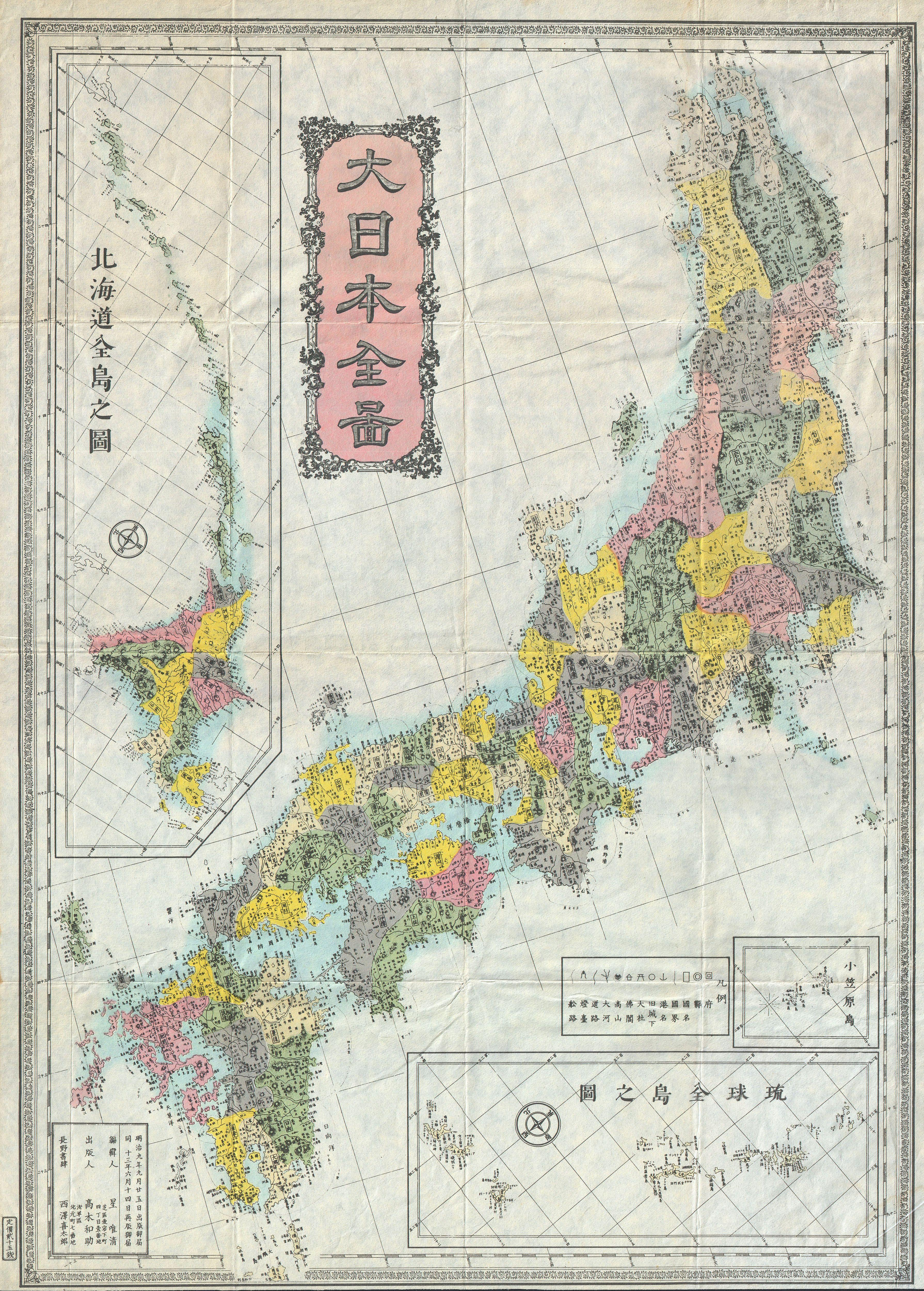 This is a rare c.1880s late Meiji period map of Japan. Issued by the Japanese in the Japanese style. Insets of Hokkaido in the upper left quadrant and other Japanese islands in the lower right quadrant. Surrounded by a decorative border. All text in Japanese.